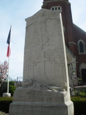 The monument aux morts of Pierrepont-sur-Avre